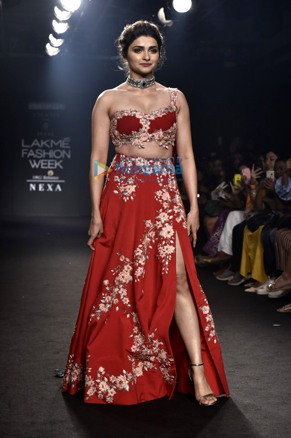 Prachi Desai graces Lakme Fashion Week 2018 – Day 5